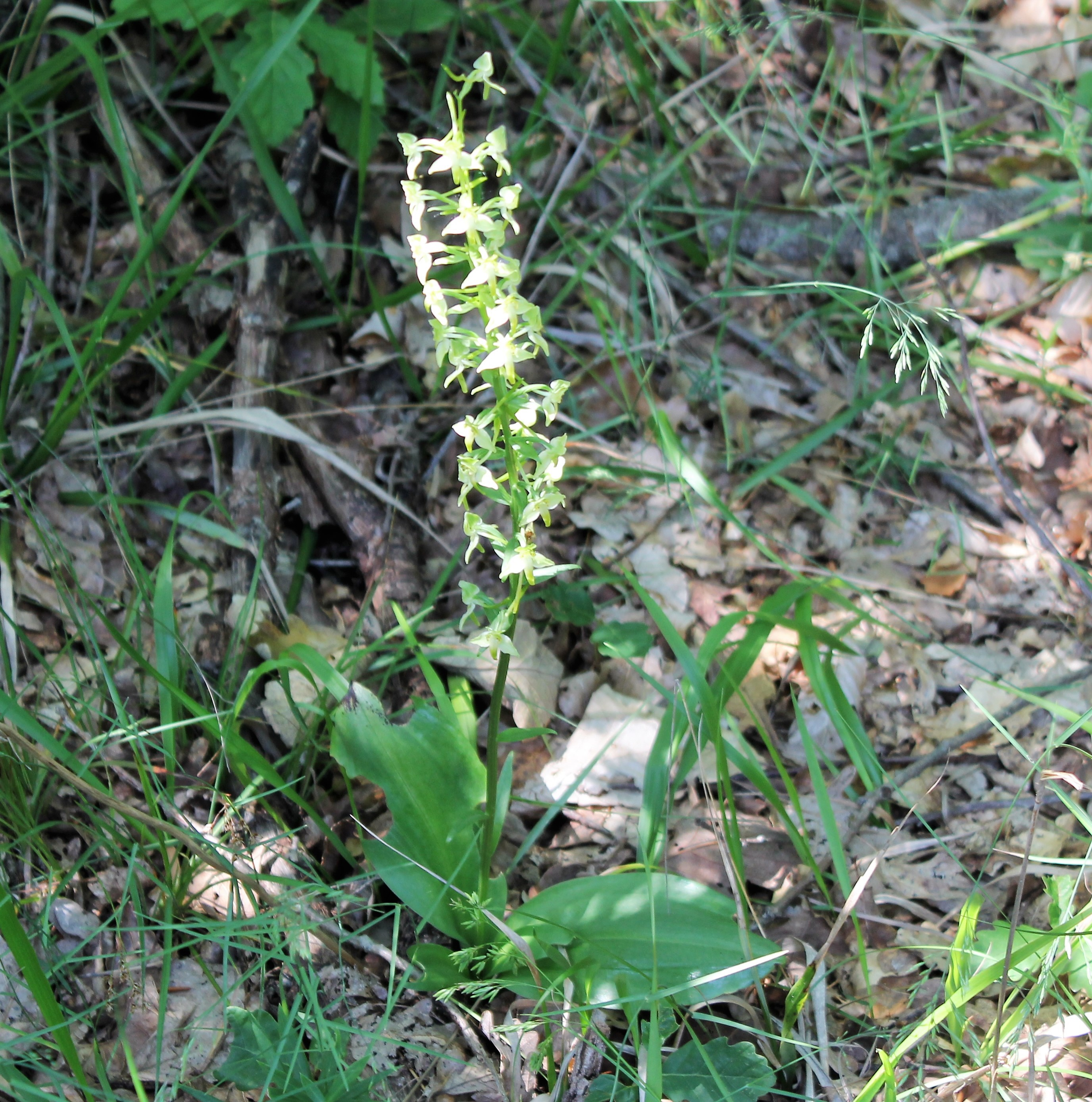 Platanthera chlorantha general